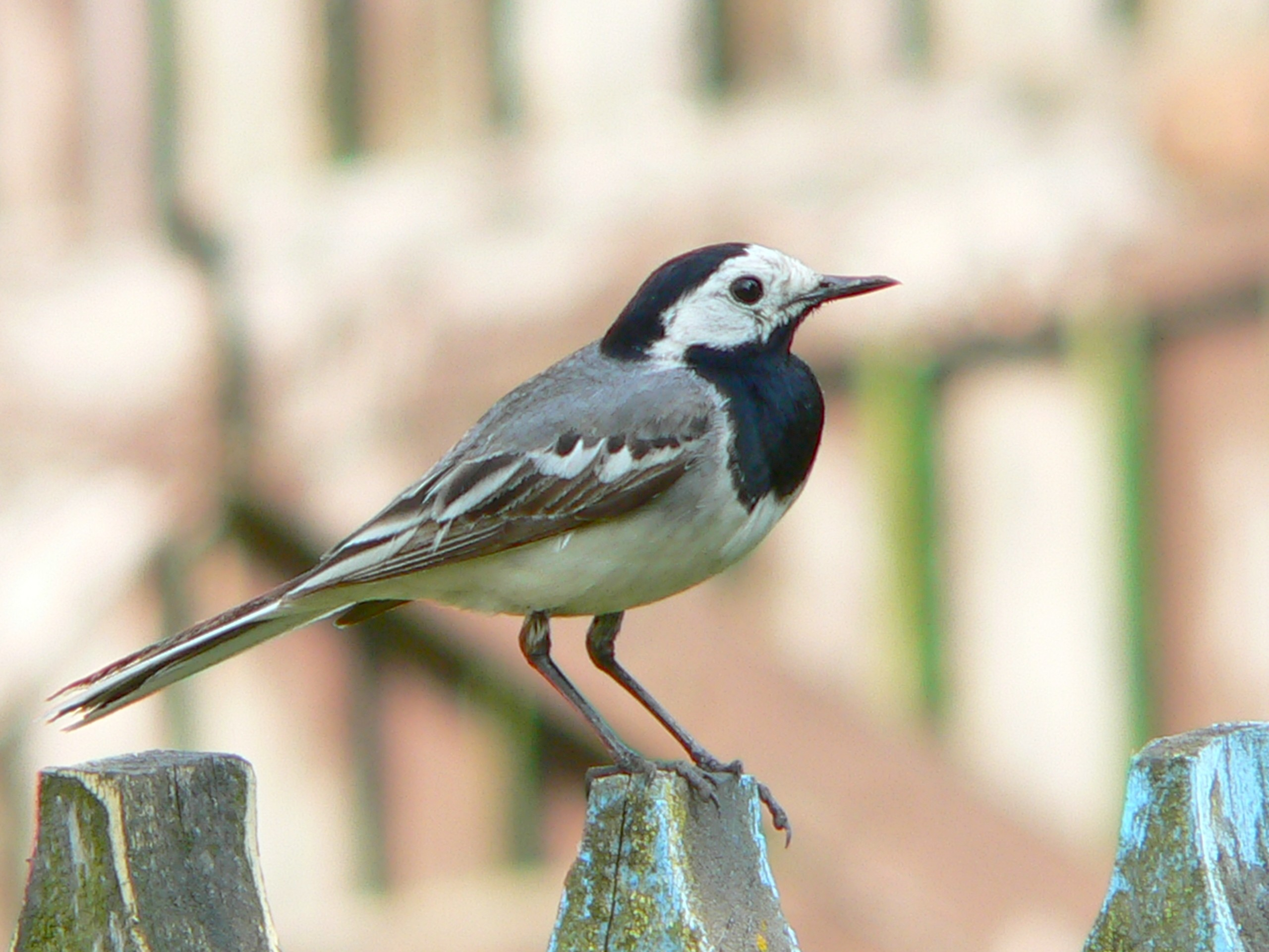 White Wagtail (Motacilla alba alba), Biebrza National Park, Poland.